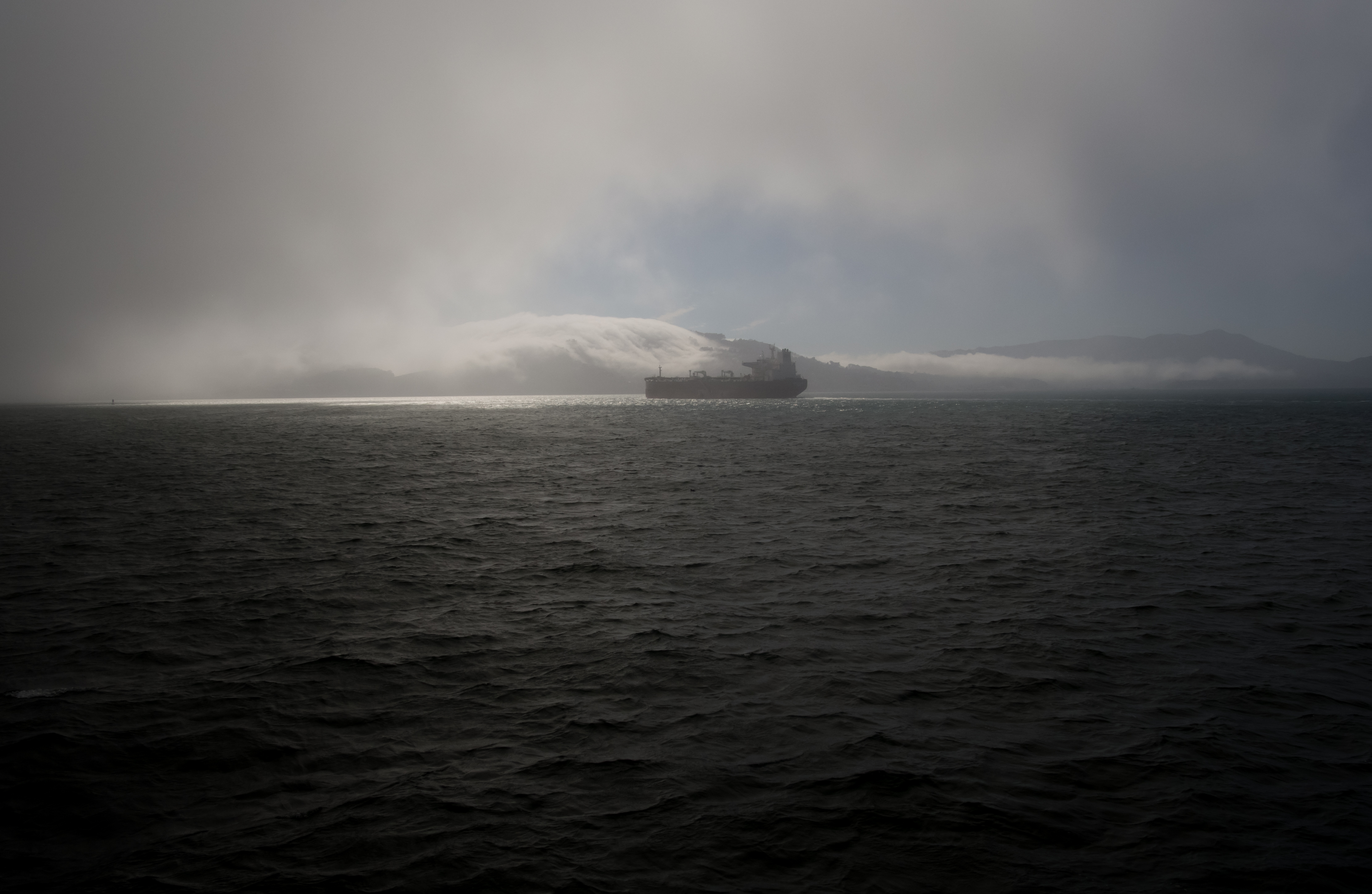 A ship, the Paramount Hydra, in the fog on San Francisco Bay.